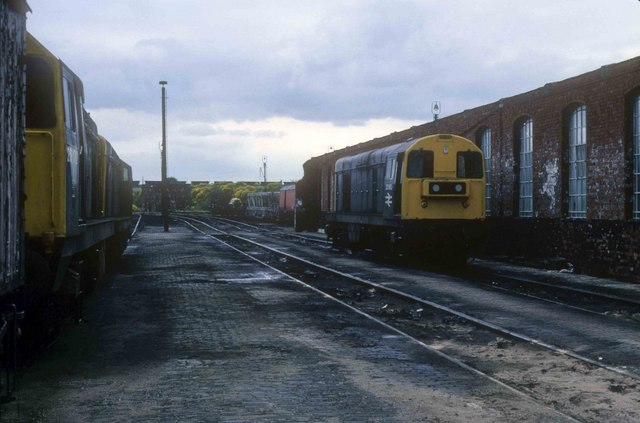 Westhouses loco shed, near to Westhouses, Derbyshire, Great Britain. Stabled at the shed are a number of class 20 locomotives used on the local coal trains to the numerous mines that once were in this part of the coalfield. When the mines all shut there was no requirement for the locomotives or wagons so along with the mines the mineral railways in this area also vanished .